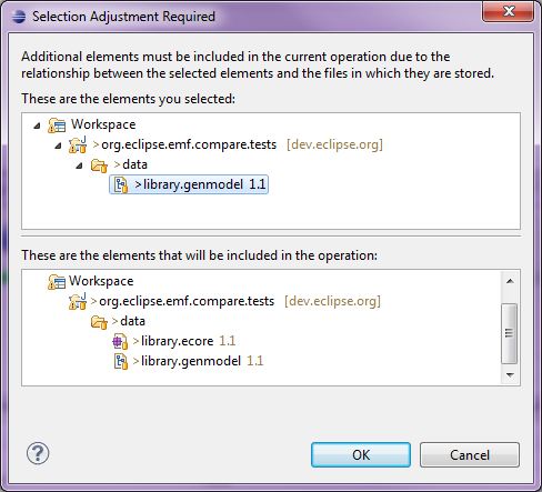 Screenshot of the open source software EMF Compare